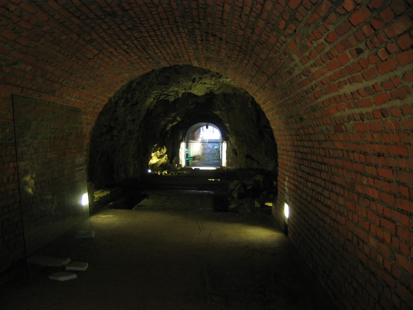 Berchtesgaden, inside the Obersalzberg bunker. View towards the staircase entry.